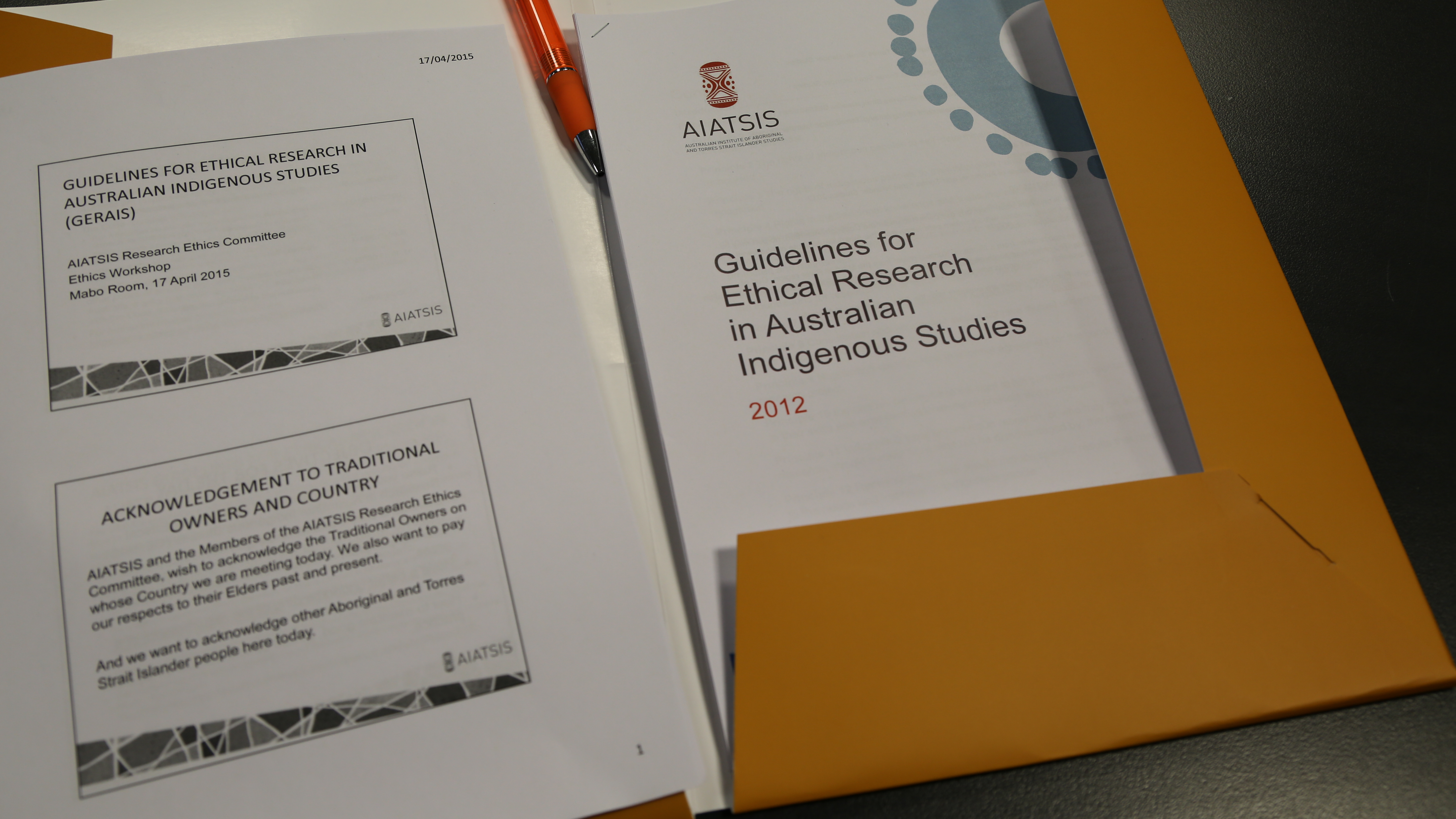 The Guidelines for Ethical Research in Australian Indigenous Studies (GERAIS), published by the Australian Institute of Aboriginal and Torres Strait Islander Studies in 2012.